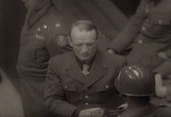 Hellmuth Felmy (1885–1965), War Crimes Trials - Subsequent Trial Proceedings - Hostages Trial #7, Nuremberg, Germany. Sentencing Southeast Generals.